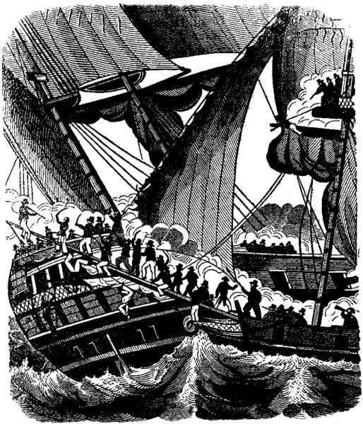 Boarding battle